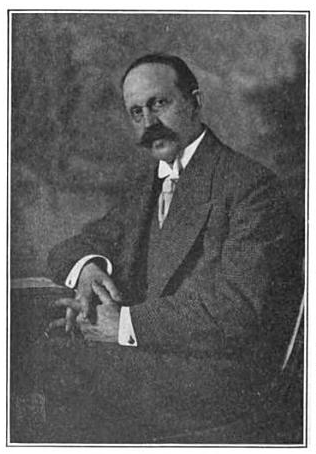 Portrait of linguist Franz Nicolaus Finck